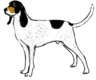 Gascon-saintongeois hound